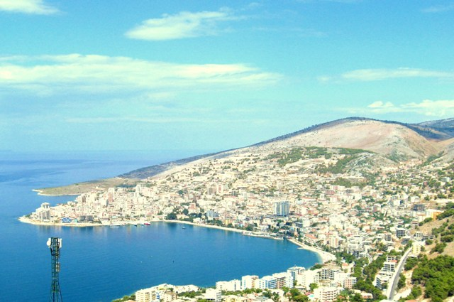 Saranda